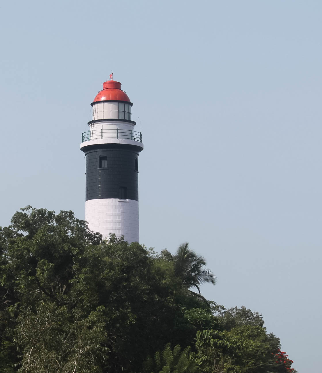 Kadaloor Point Lighthouse. View from outside the gate.